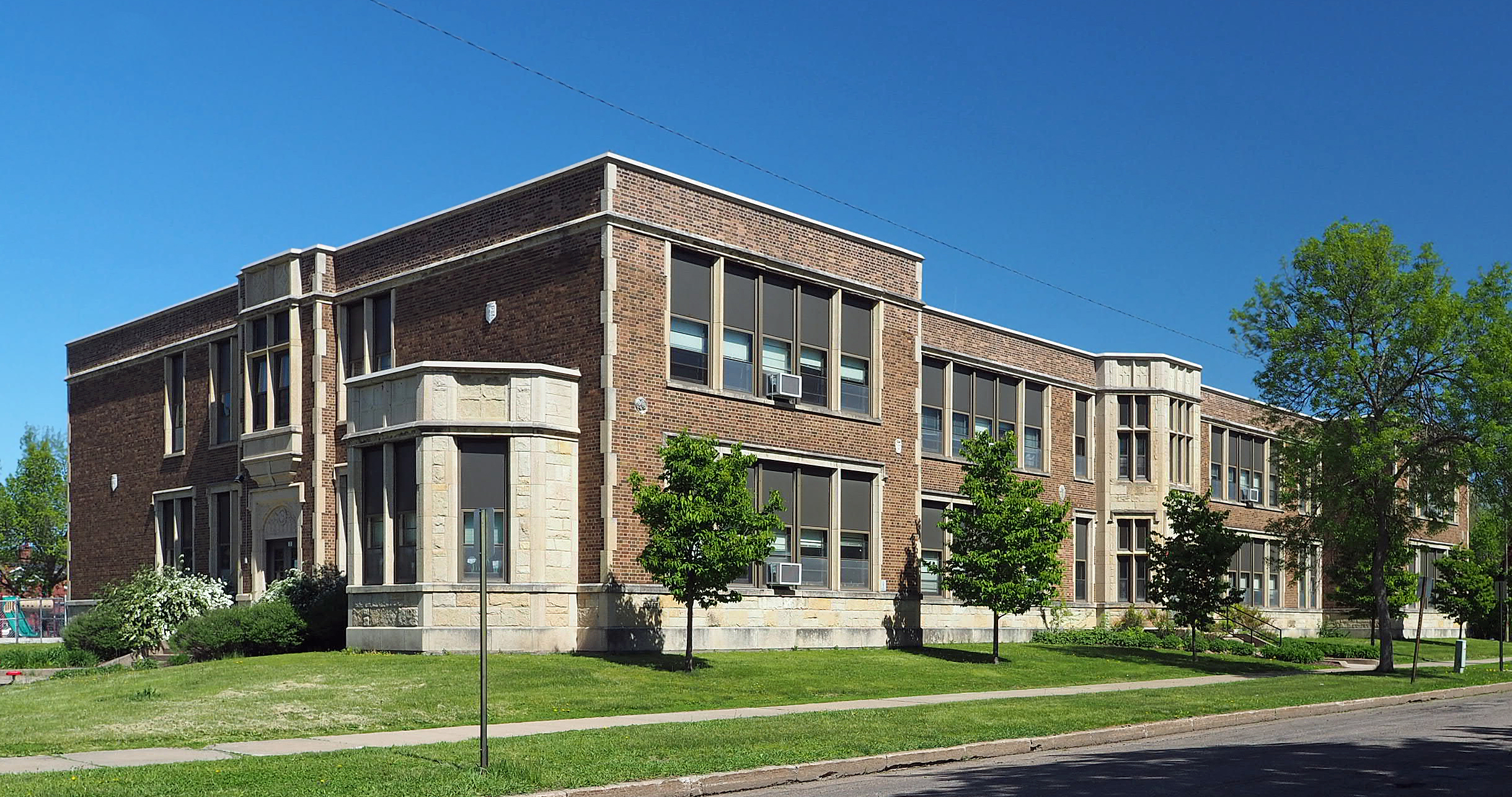 Central Grade School, 317 Market St, Winona, Minnesota, USA. Viewed from the southeast.